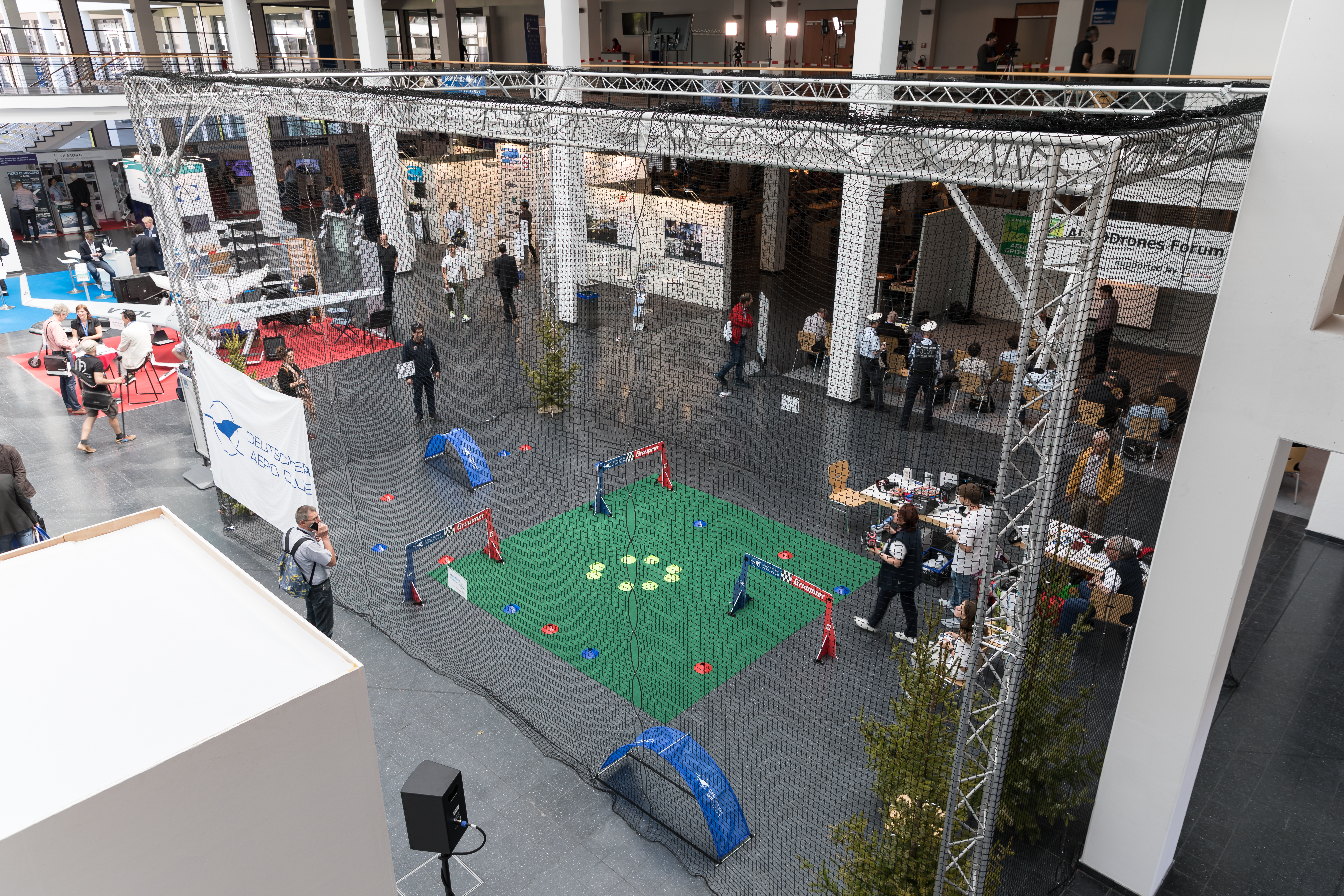 AERO Friedrichshafen 2018